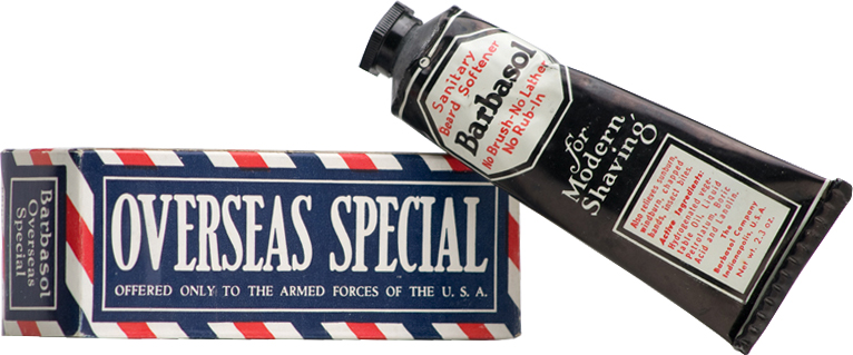 Photo of older Barbasol Product